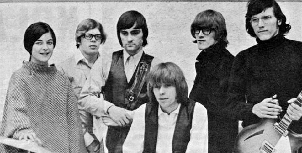 Photo of Jefferson Airplane before Grace Slick joined the group. From left: Signe Anderson, Jack Casady, Marty Balin, Skip Spence, Paul Kantner and Jorma Kaukonen. When Anderson left the group, she was replaced by Grace Slick.